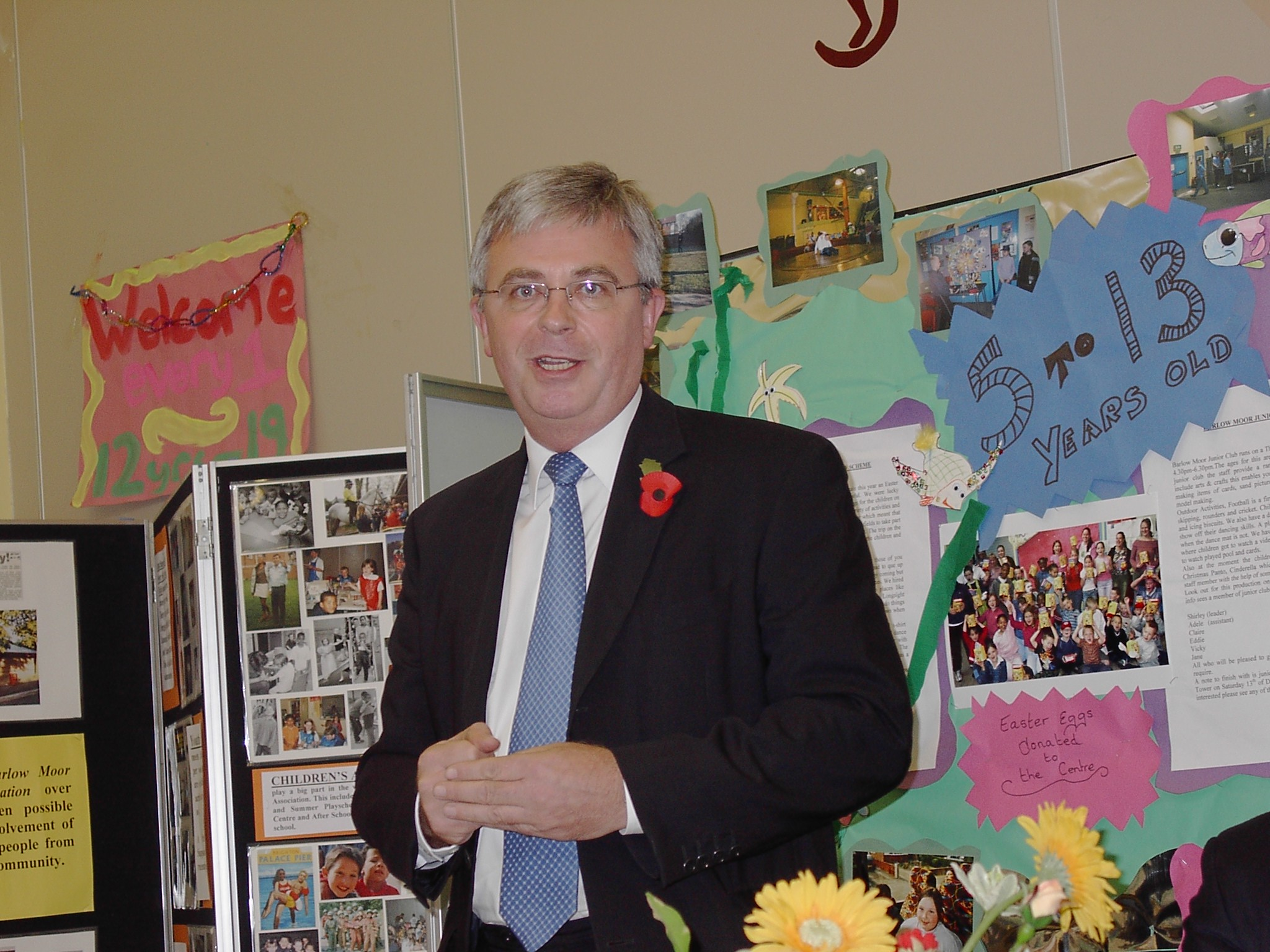 Keith Bradley MP at a children's fair in Manchester 2003